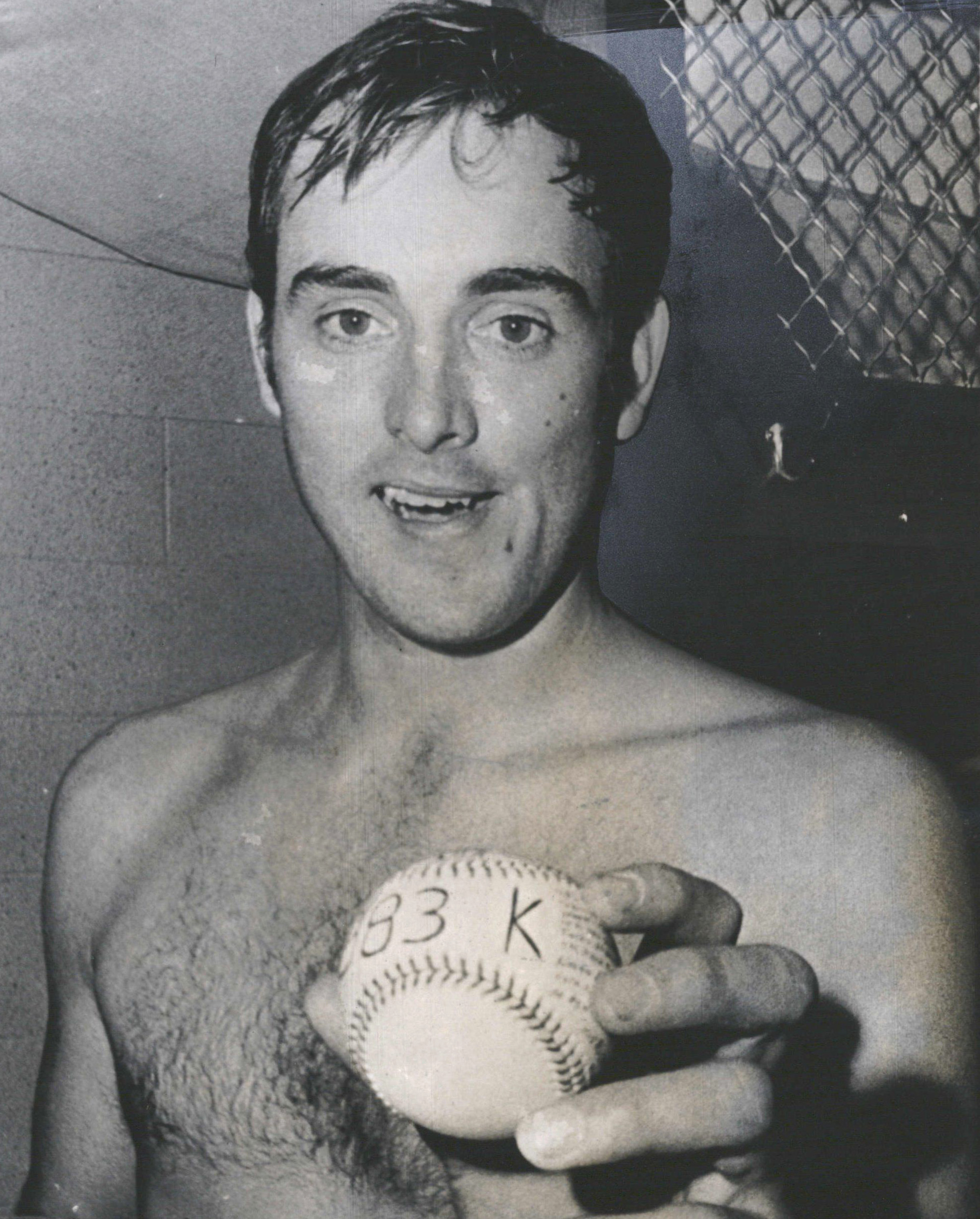 Nolan Ryan in 1973